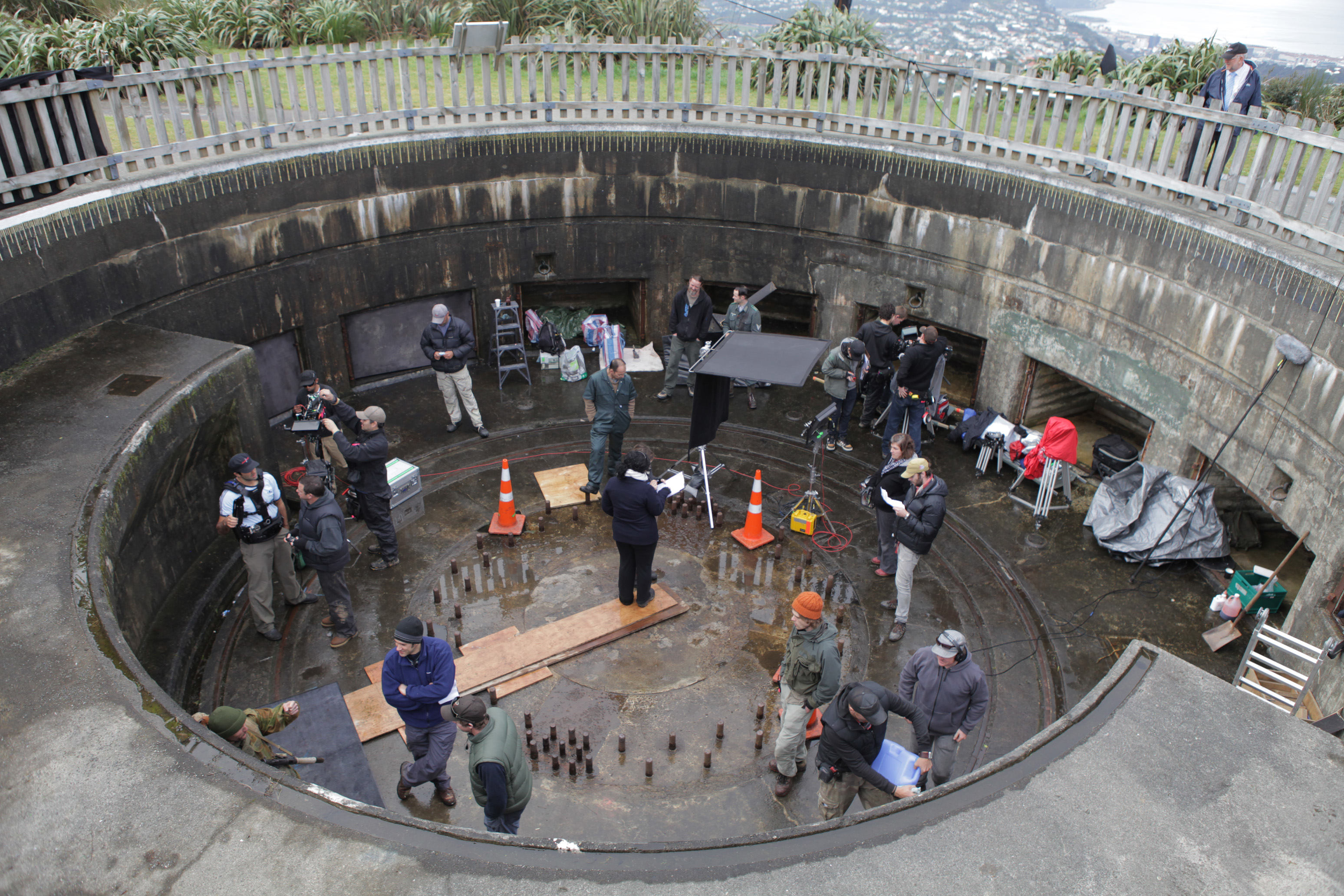 Behind the scenes photograph of filming on the New Zealand feature film The Devil's Rock in the Gun pit No.1 at Wrights Hill Fortress, Karori, Wellington, New Zealand.